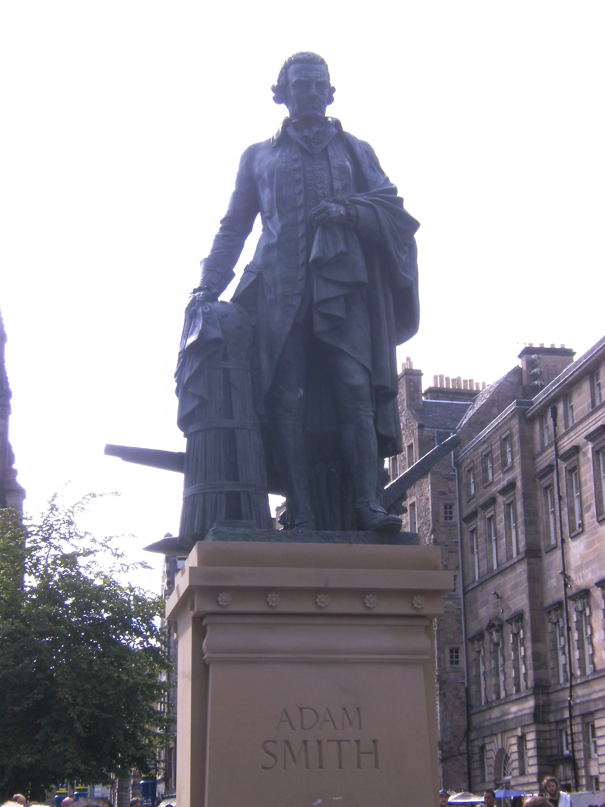 Statue of Adam Smith on the Royal Mile, Edinburgh